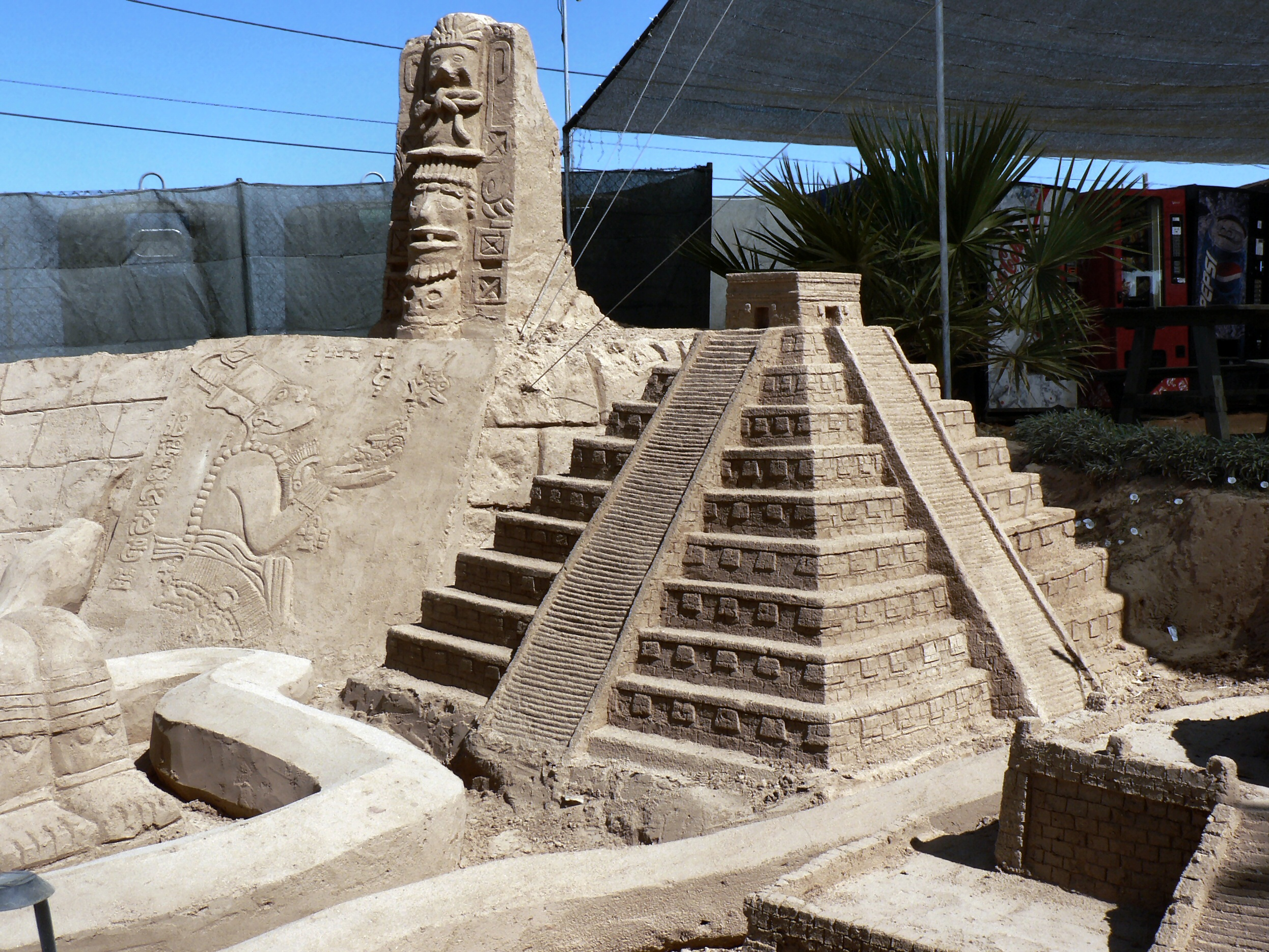 Sand sculpture of Chichén Itzá| in the International Sand Scultpture Festival (FIESA) 2007, Pêra, Algarve